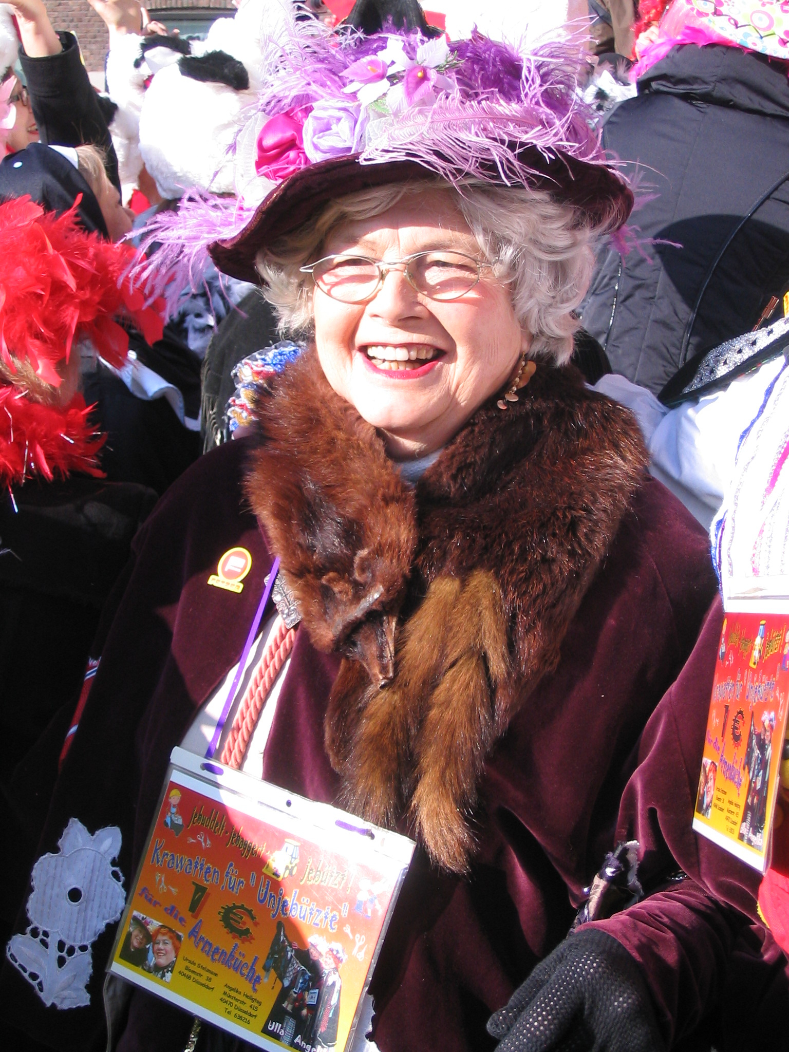 Carnival in Düsseldorf. Woman sells old ties to the men for cutting through the women (returns for poor-relief).